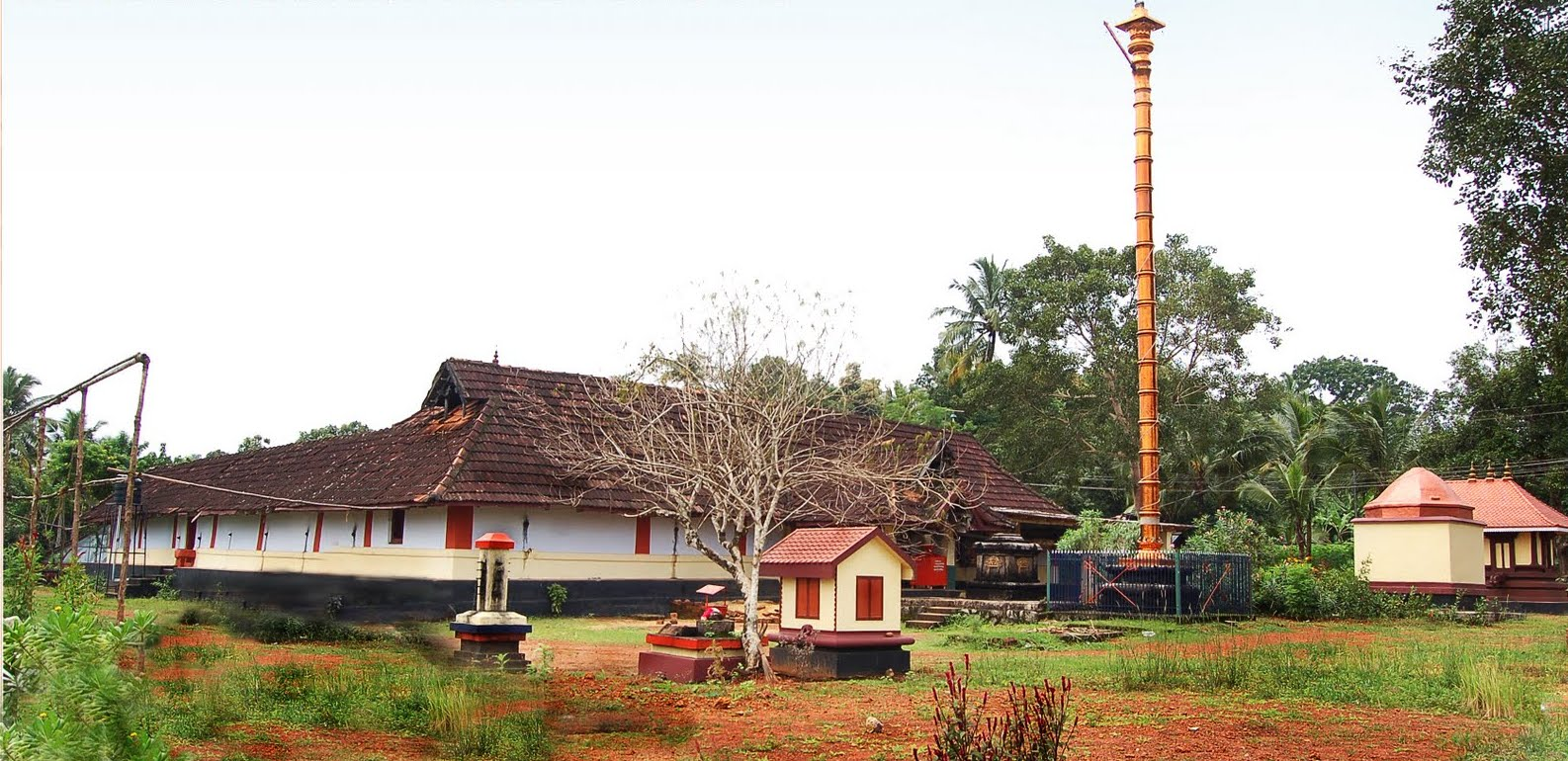 Pavithreswaram Mahadevar temple, Kollam